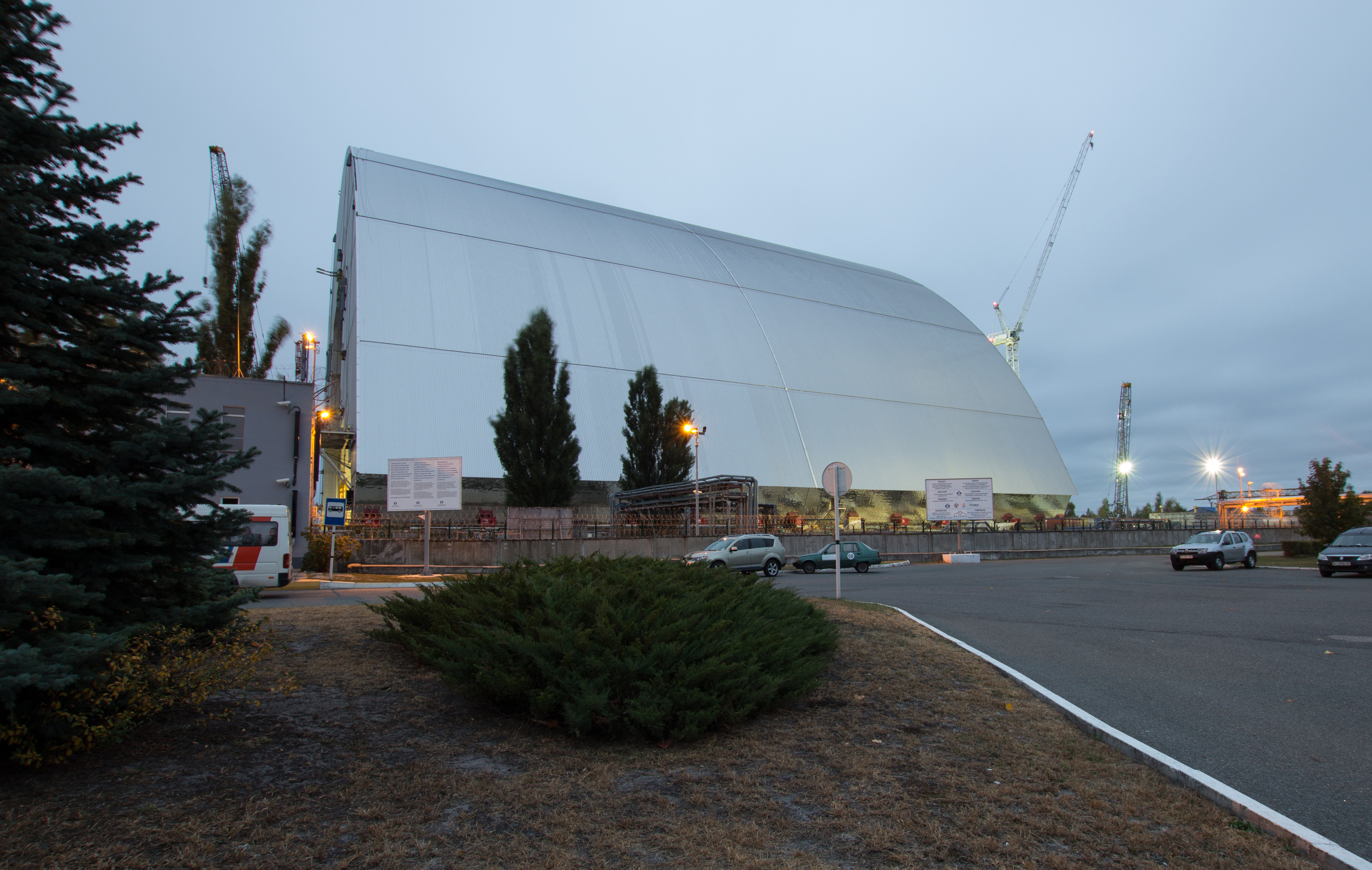 The New Safe Confinement at Chernobyl Nuclear Power Plant nearing completion in October 2016